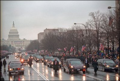 Thousands of spectators watch as the motorcade of newly inaugurated President George W. Bush makes its way along the parade route in Washington, D.C.